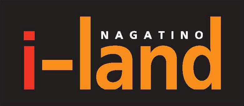 Logo of company